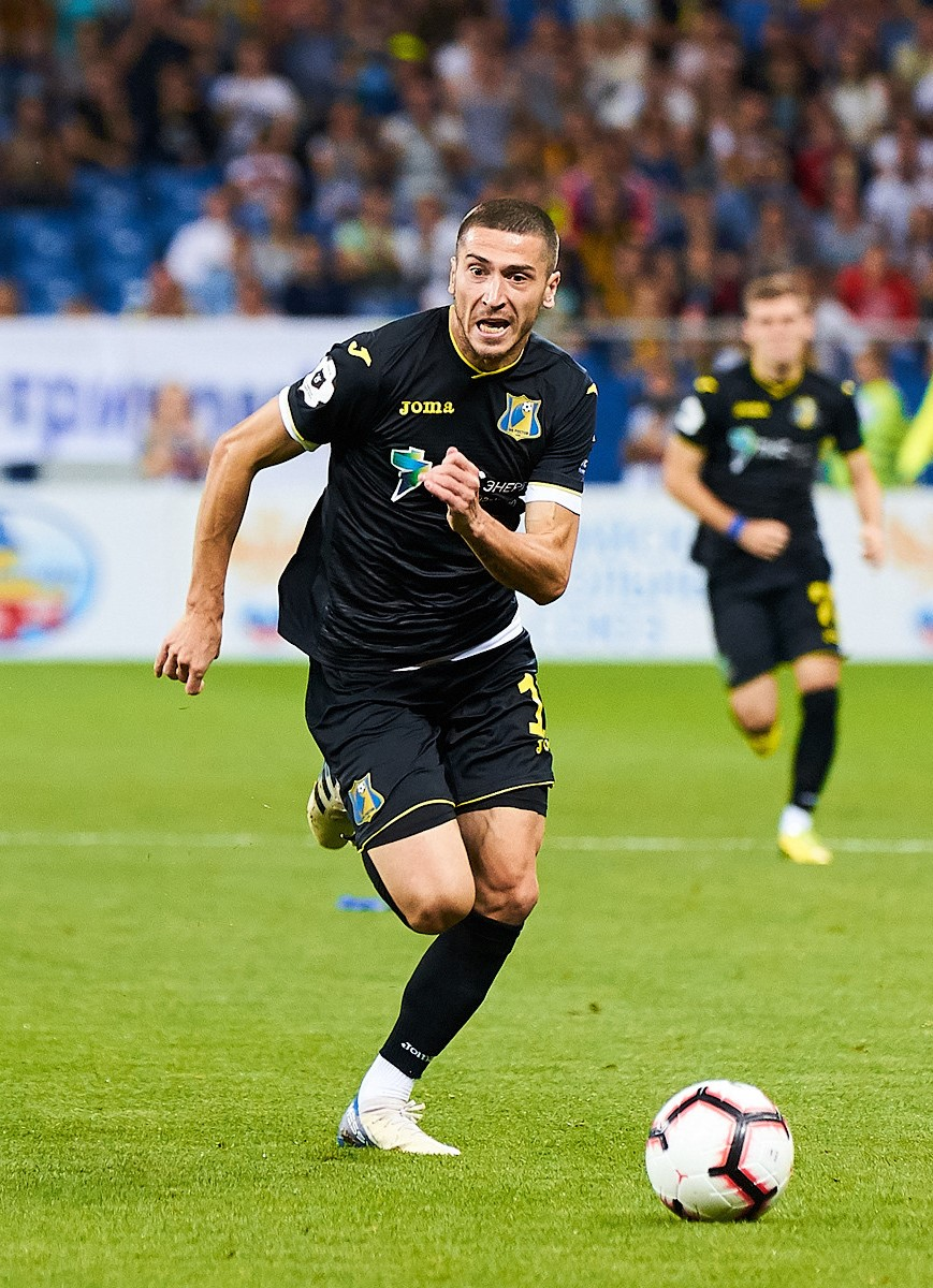 Aleksei Ionov